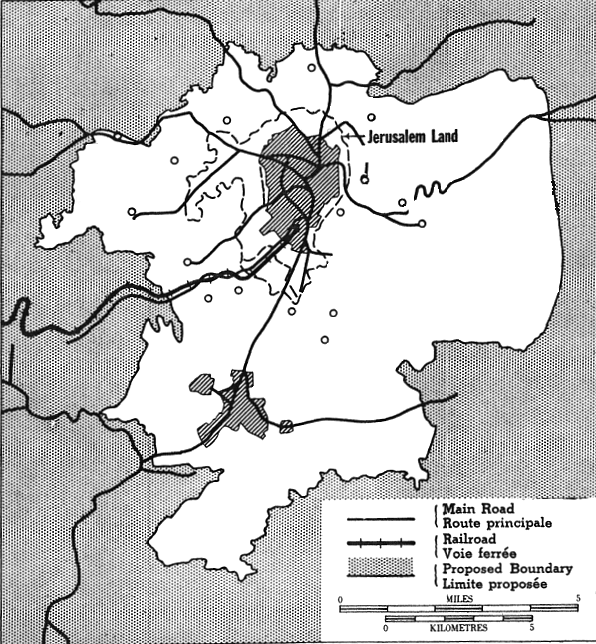 Jerusalem Corpus Separatum (1947 map)